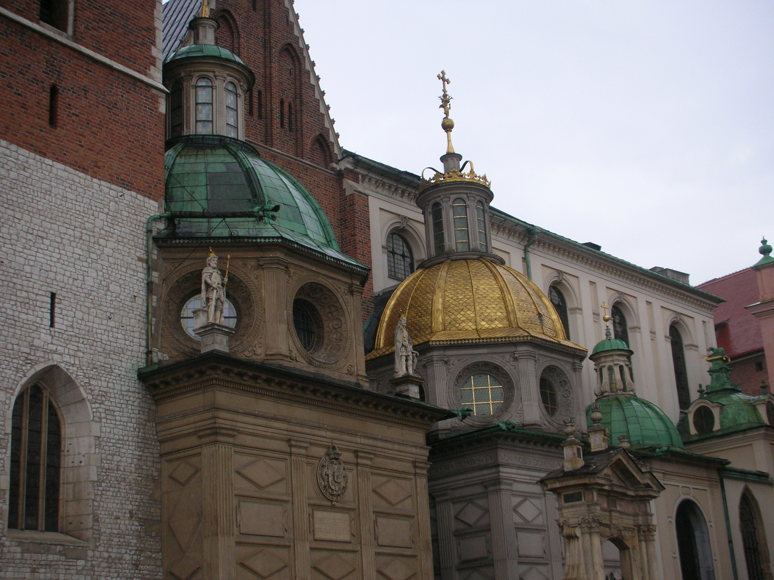 Castle of Wawel in Krakow (Poland)